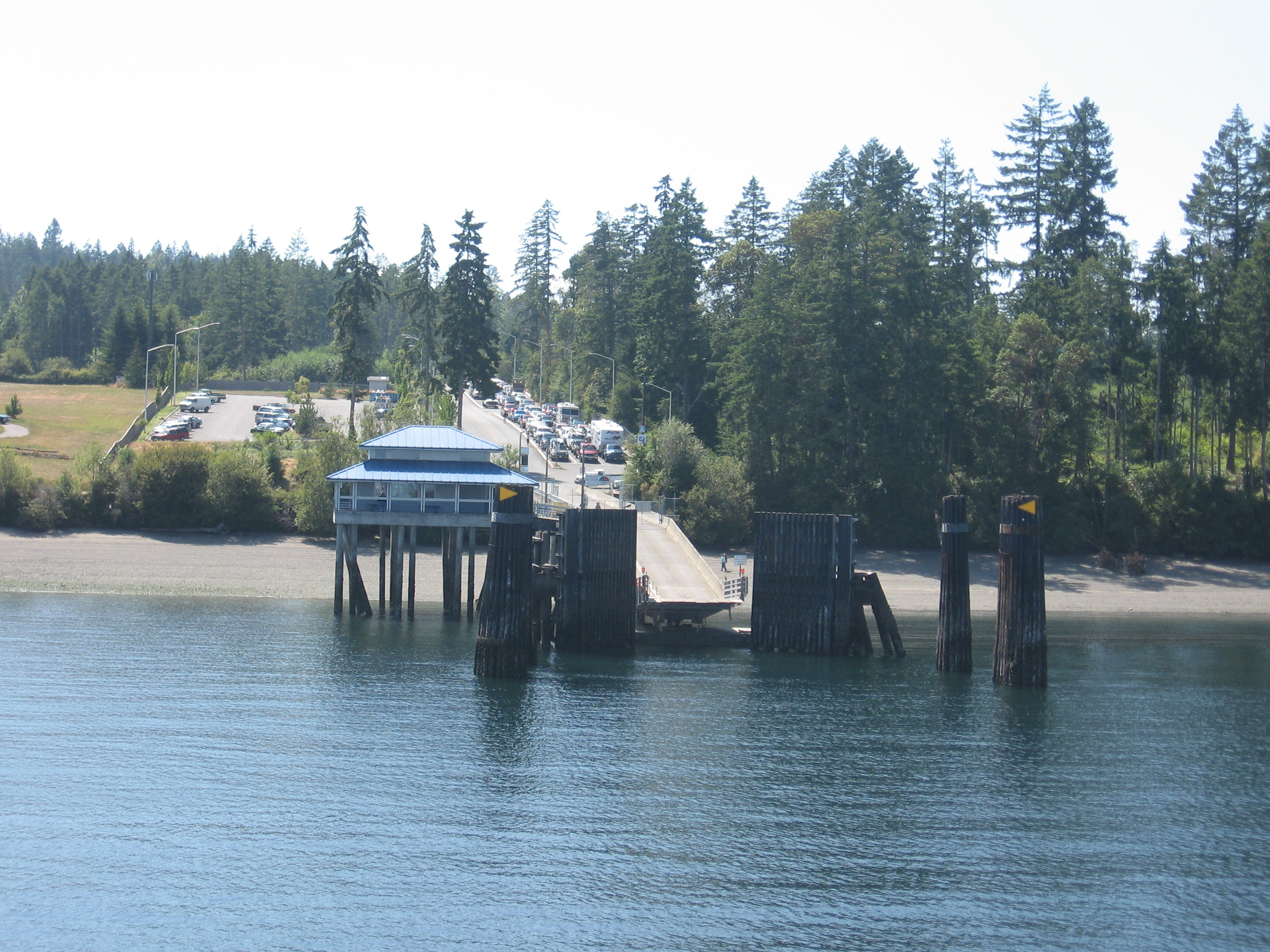 The Anderson Island ferry loading dock at Yoman Road. Other version on Commons: 100px